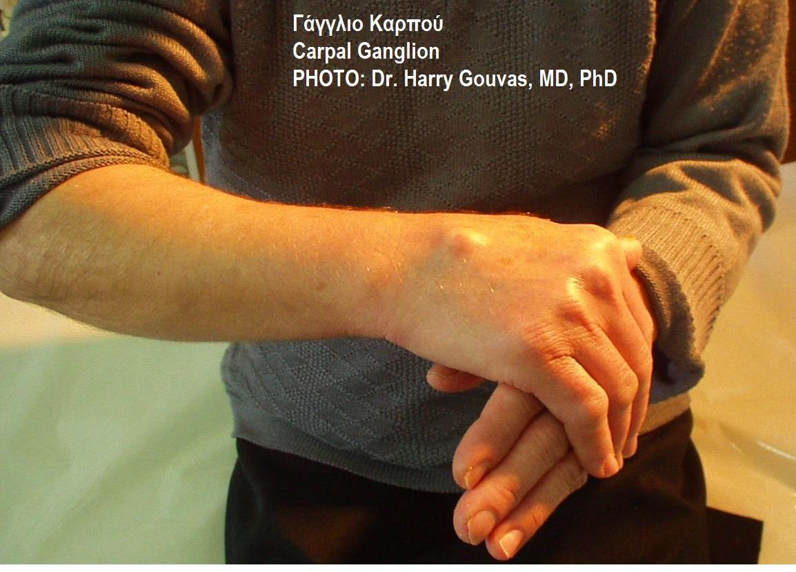 Carpal gaglion